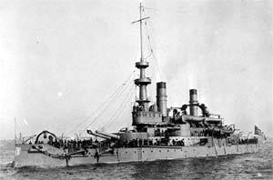 The Battleship USS Oregon, Public domain photo from history.navy.mil